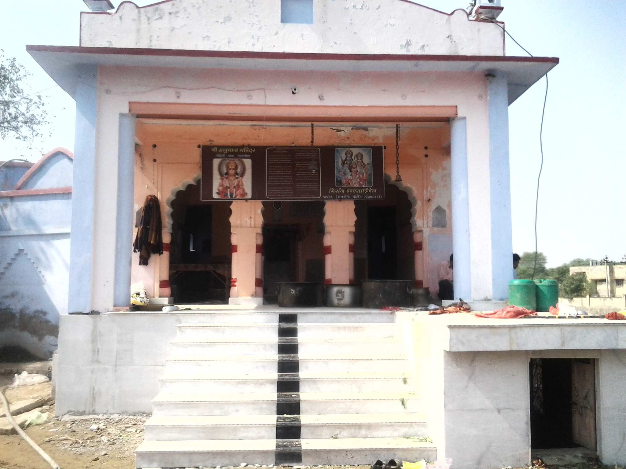 this is situated in rajnota.